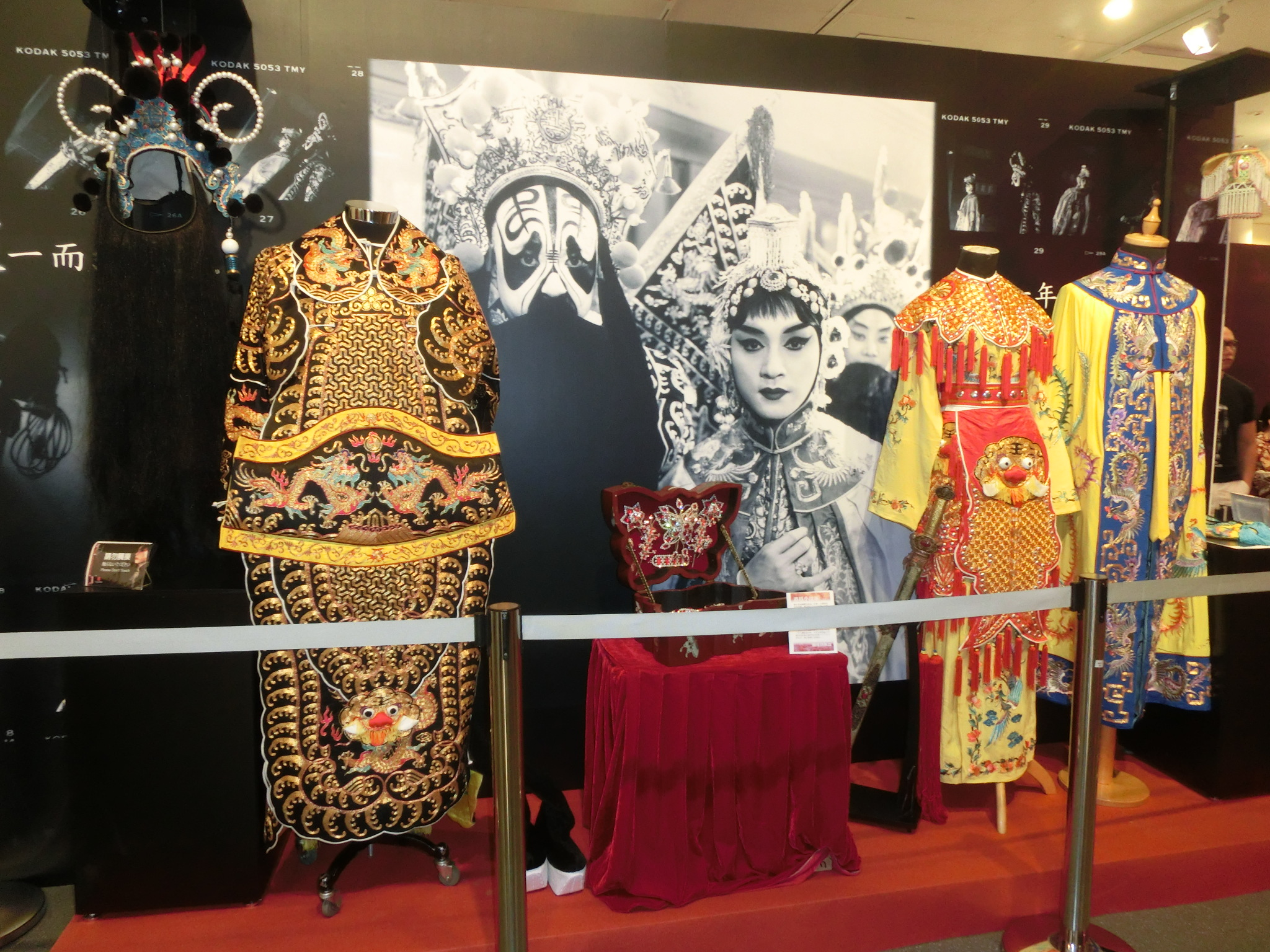 張國榮歌影迷國際聯盟, Art of Leslie Cheung's Movie Images (exhibition) by Red Mission in Hong Kong Central Library in April 2013